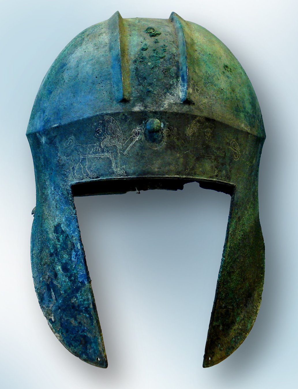 "Illyrian" type helmet. Bronze. 6th-5th century BC. From Argolis.